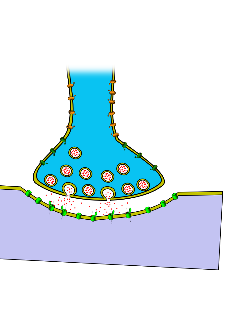 unlabeled synapse